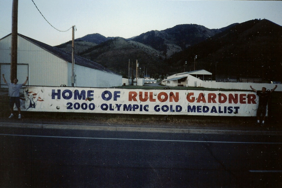 Rulon Gardner (born August 16, 1971 in Afton, Wyoming) is an amateur wrestler in the Greco-Roman discipline from the United States, most notable for his gold medal in the 2000 Olympics after defeating Russian Alexander Karelin, who was previously undefeated in 13 years of international competition. Gardner's win "shocked the wrestling world." His strength is often attributed to the physical labor he performed on the dairy farm where he grew up. He attended junior college at Ricks College (now BYU-Idaho) in Rexburg, Idaho and graduated from the University of Nebraska-Lincoln with a bachelor's degree in physical education though he has never taught in the classroom. He attended both Ricks and Nebraska on wrestling scholarships. His love is working with disadvantaged children and is currently making his profession as a motivational speaker. Afton is a town in Lincoln County, Wyoming, United States. The population was 1,818 at the 2000 census. Afton is home to the world's largest elk horn arch. Spanning 75 feet (23 m) across the four lanes of US Highway 89, the arch consists of 3,011 elk antlers and weighs 15 tons.